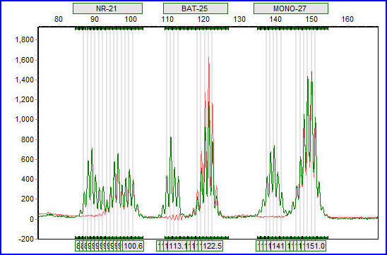 Microsatellite Instability in SoftGenetics GeneMarker software